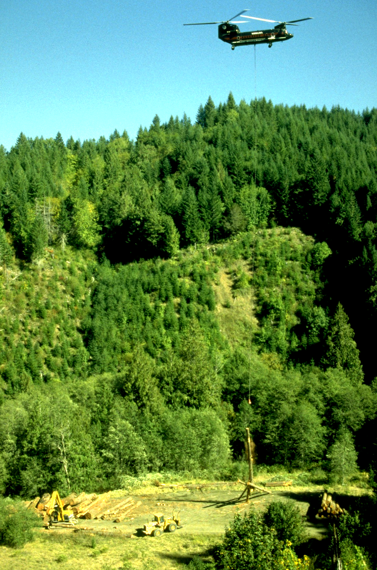 The Bureau of Land Management manages more than 2 million acres of land in Oregon, most of which are former lands of the Oregon and California Railroad.